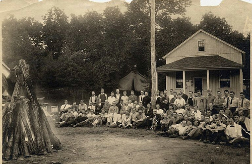 View of Gifford Pinchot, Yale College B.A. 1889, visiting students at the Yale School of Forestry summer camp at Gray Towers, the estate belonging to the Pinchot family, in Milford, Pennsylvania. Pinchot is in the front row with the dog.